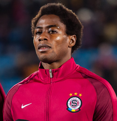 «Ростов» - «Спарта» (16.02.2017)